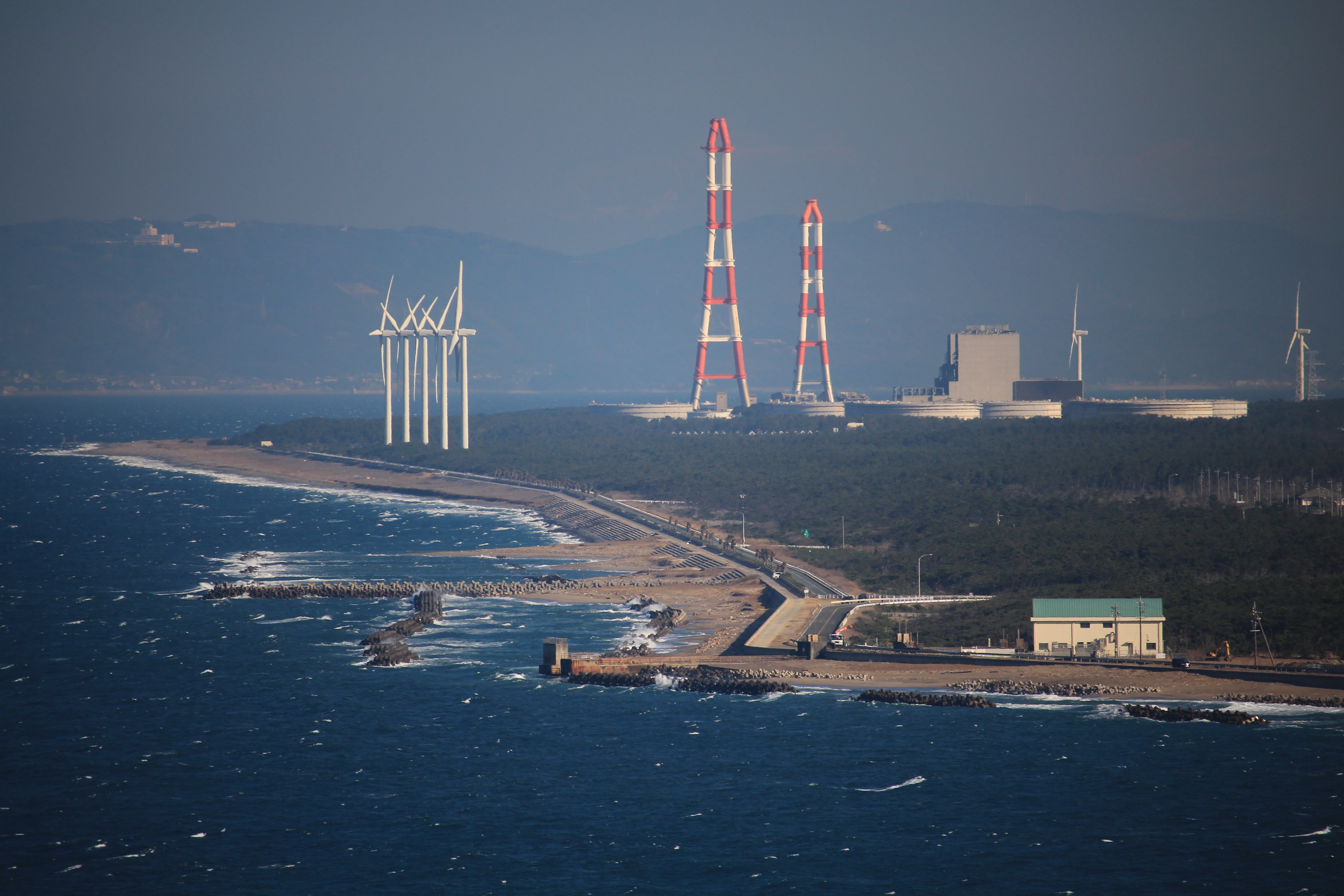 Atsumi Thermal Power Plant and Nishi coast (Nishinohama) seen from Cape Irago in Tahara, Aichi prefecture, Japan.